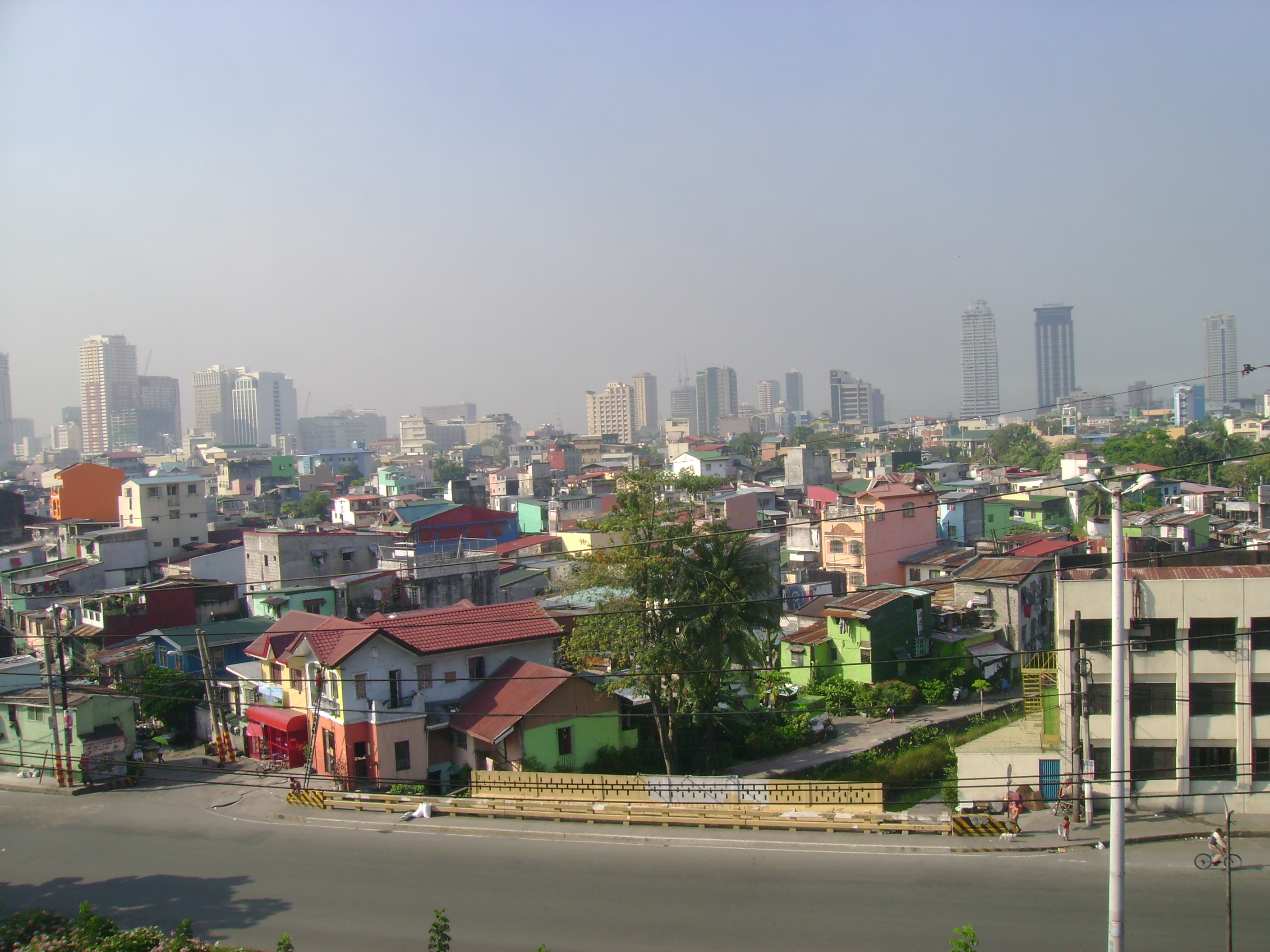 San Andres in Manila near South Superhighway